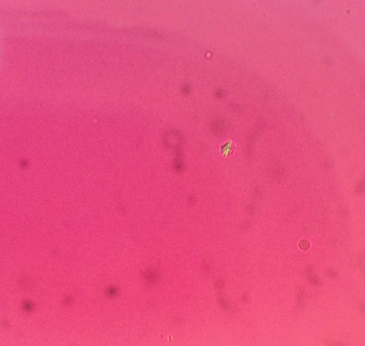 Pseudogout's CPP crystals from a knee arthrocentesis